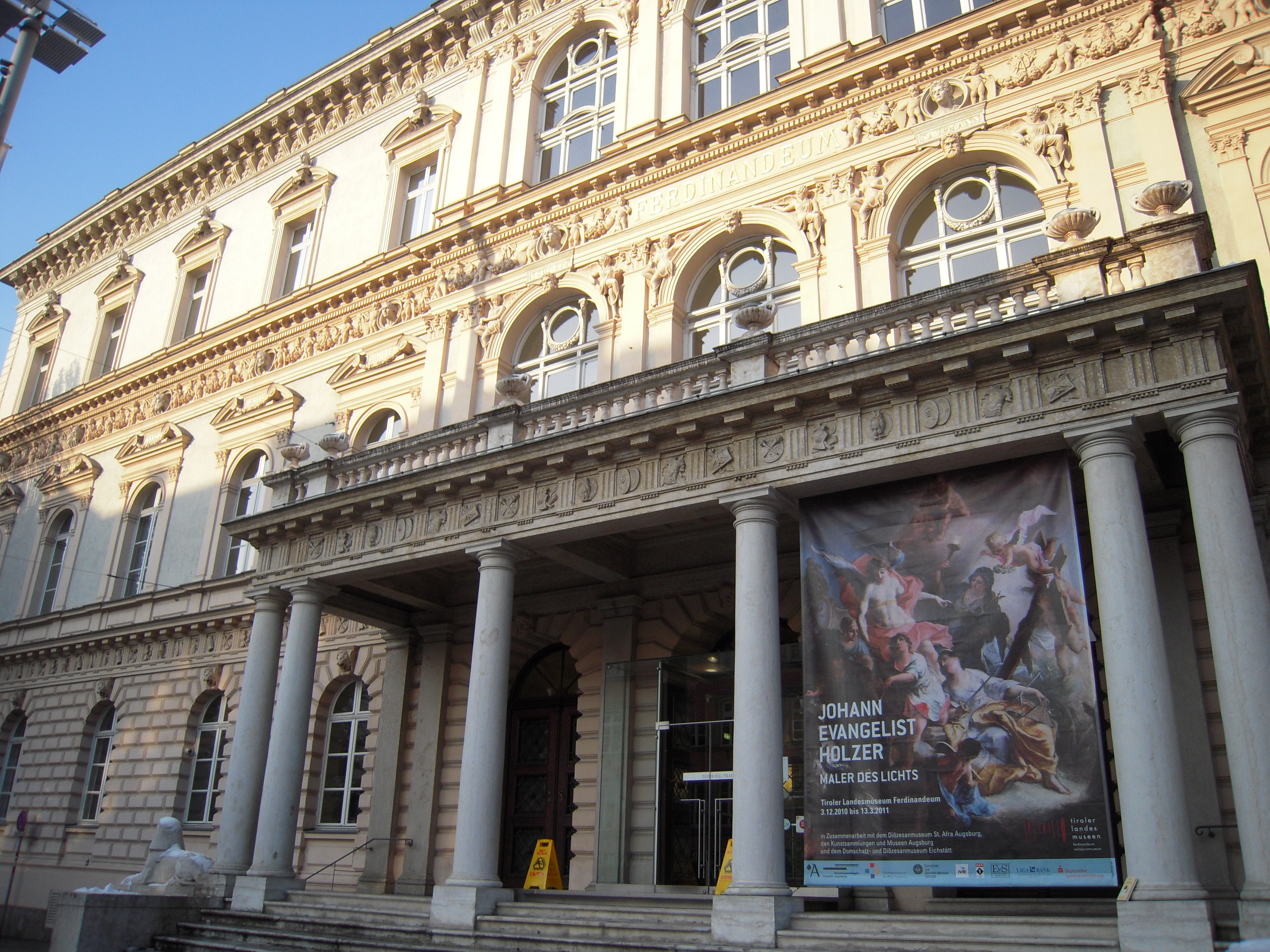 Innsbruck